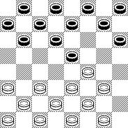 Tabia Opening Igra Kaulena